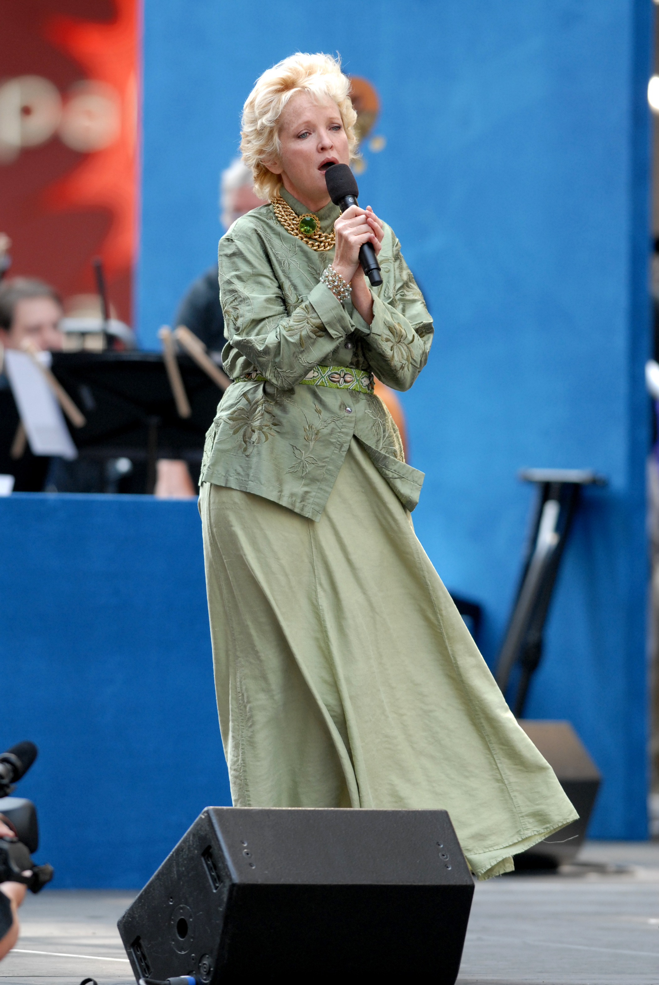 Grey Gardens cast member Christine Ebersole performs "Another Winter in a Summer Town" (from the musical Grey Gardens) at Broadway on Broadway, September 10th 2006.